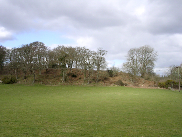 Southern ramparts of Buckland Rings iron-age camp viewed from the south. Looking north at the southern ramparts of Buckland Rings iron-age camp from the field in the fork between the A337 and the Sway road. The camp is not really a hillfort as it isn't on a hill, perhaps a lowland fort is a better description. It looks out eastwards over the Lymington River valley.